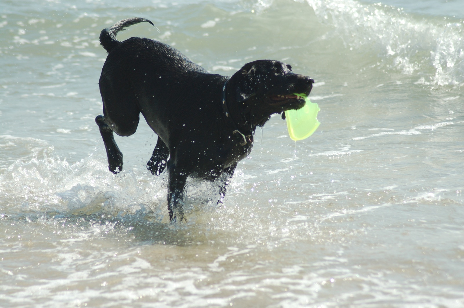 A black Labrador Retriever fetching a flying disc from the water.DSC_0539.JPG